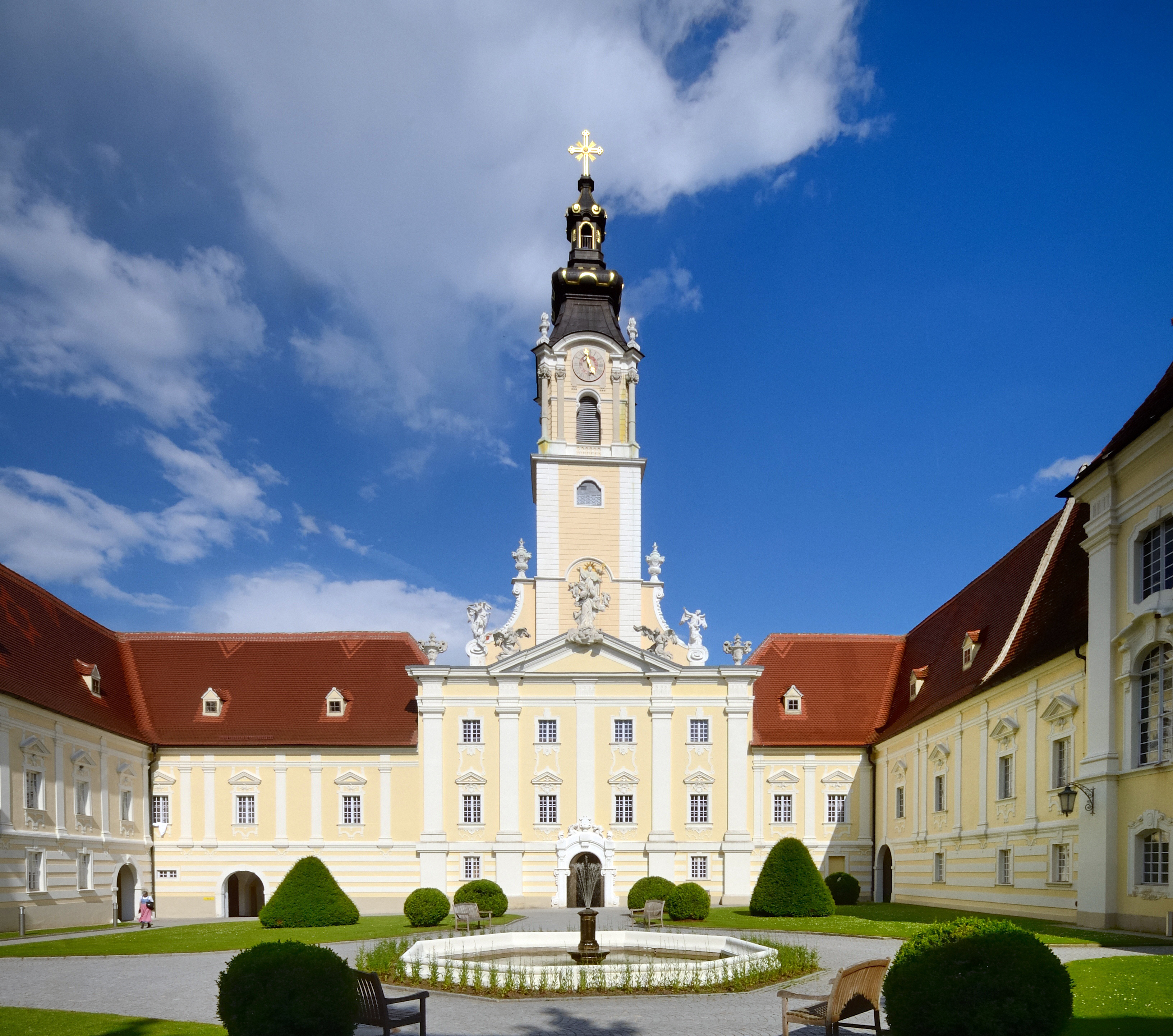 Church and courtyard of the Benedictine monastery Stift Altenburg